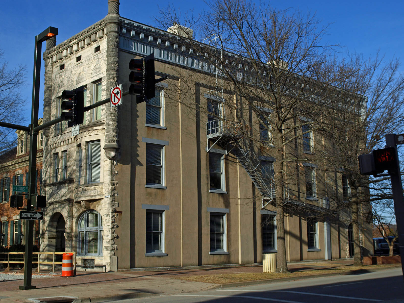 The Schiffman Building in Huntsville, Alabama, listed on the National Register of Historic Places.